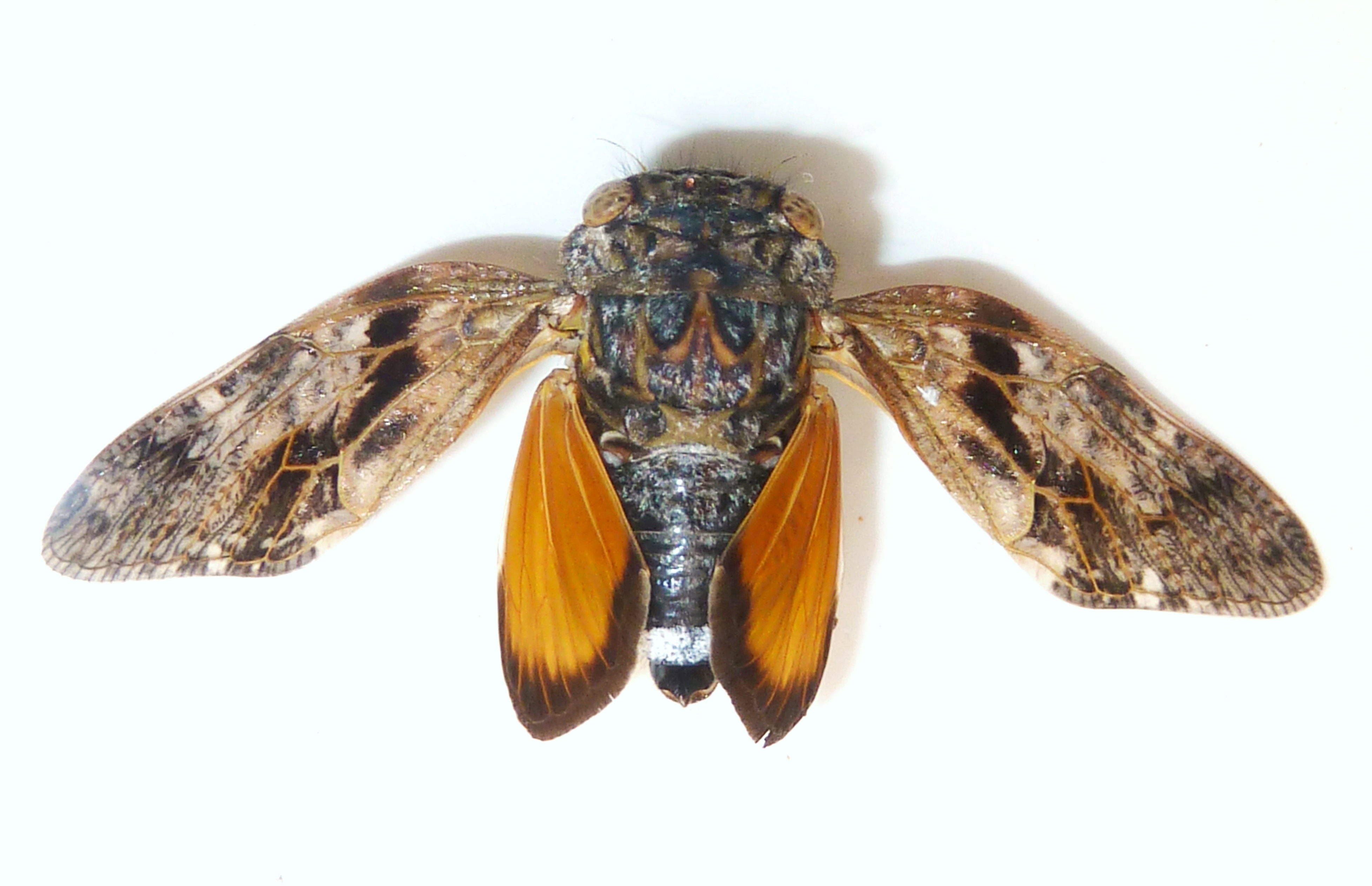 Orange-winged cicada, P. haglundi, shown with open front wings, collected at Skeerpoort on the southern slope of the Magaliesberg, South Africa. Acacia ataxacatha grows nearby, on which it possibly fed.